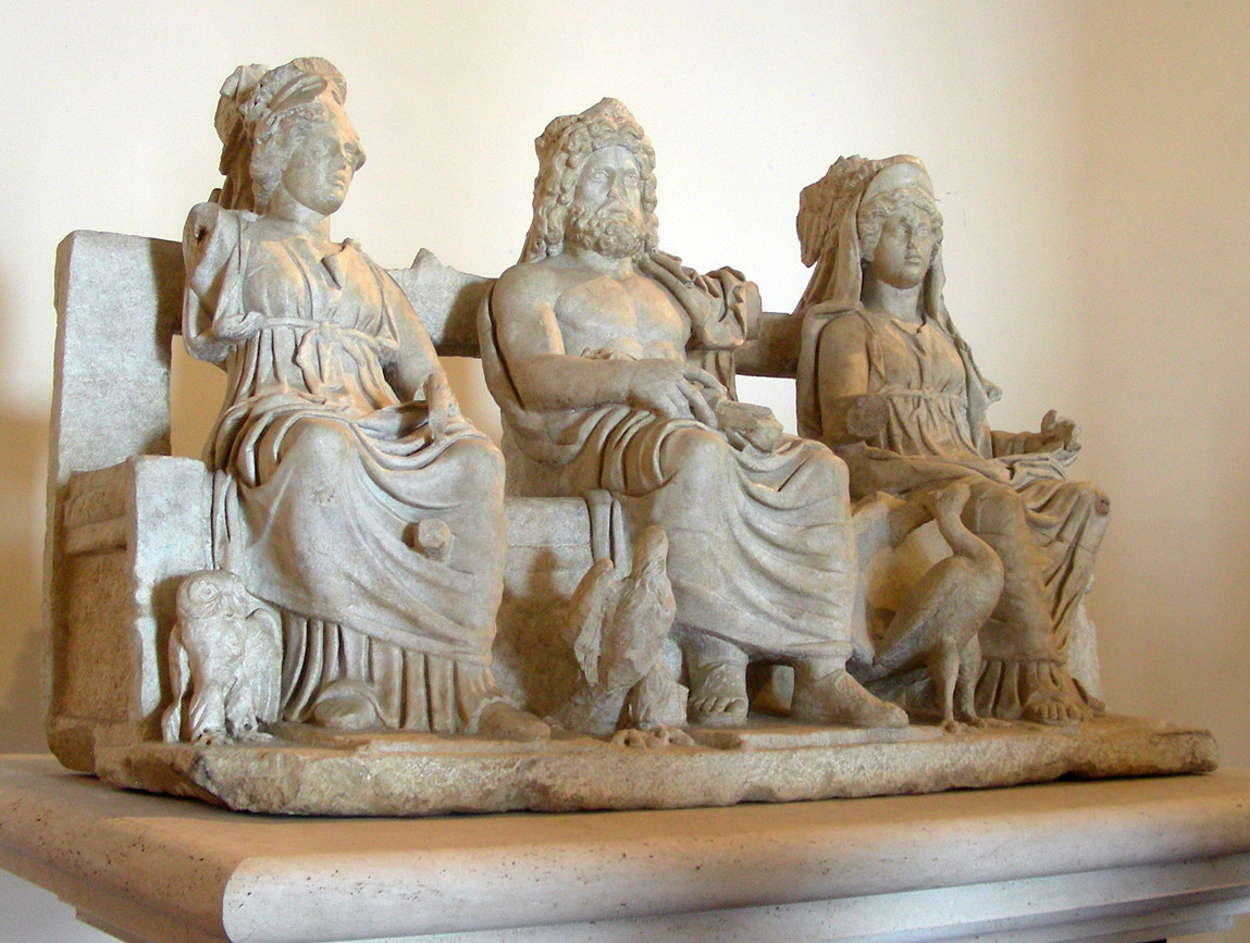 Italy, Latium, Rome's province, Palestrina, Museo archeologico prenestino, sculpture group with "Triade Capitolina" (Iuppiter, Iuno and Minerva) coming from a roman villa in Guidonia (160-180 d.C.)